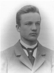 K. V. Valve finnish text writer